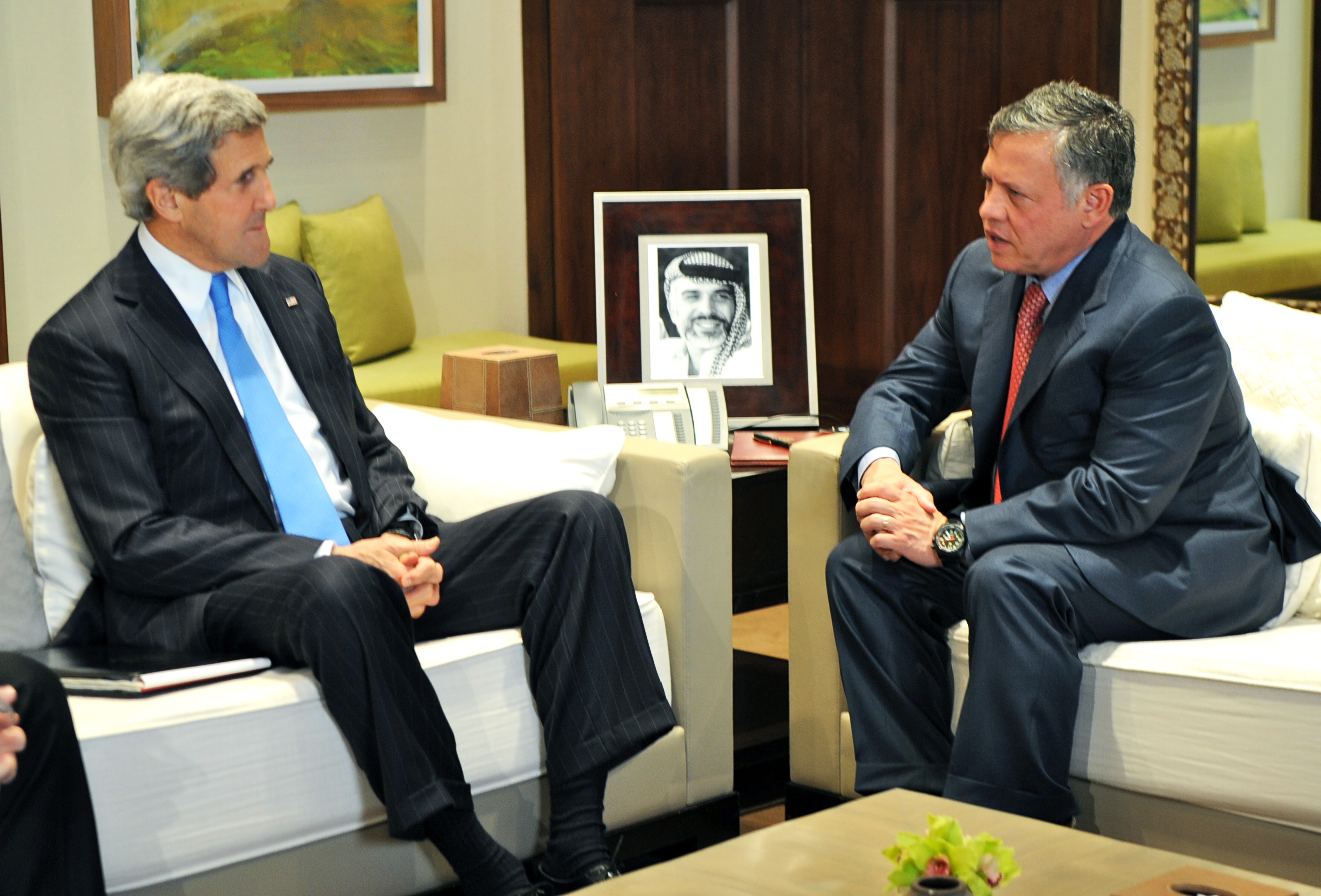 U.S. Secretary of State John Kerry meets with Jordanian King Abdullah II in Amman, Jordan, on May 22, 2013. [State Department photo/ Public Domain]